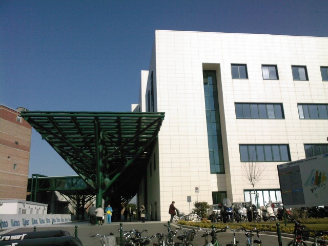 San Giuseppe Hospital - Empoli